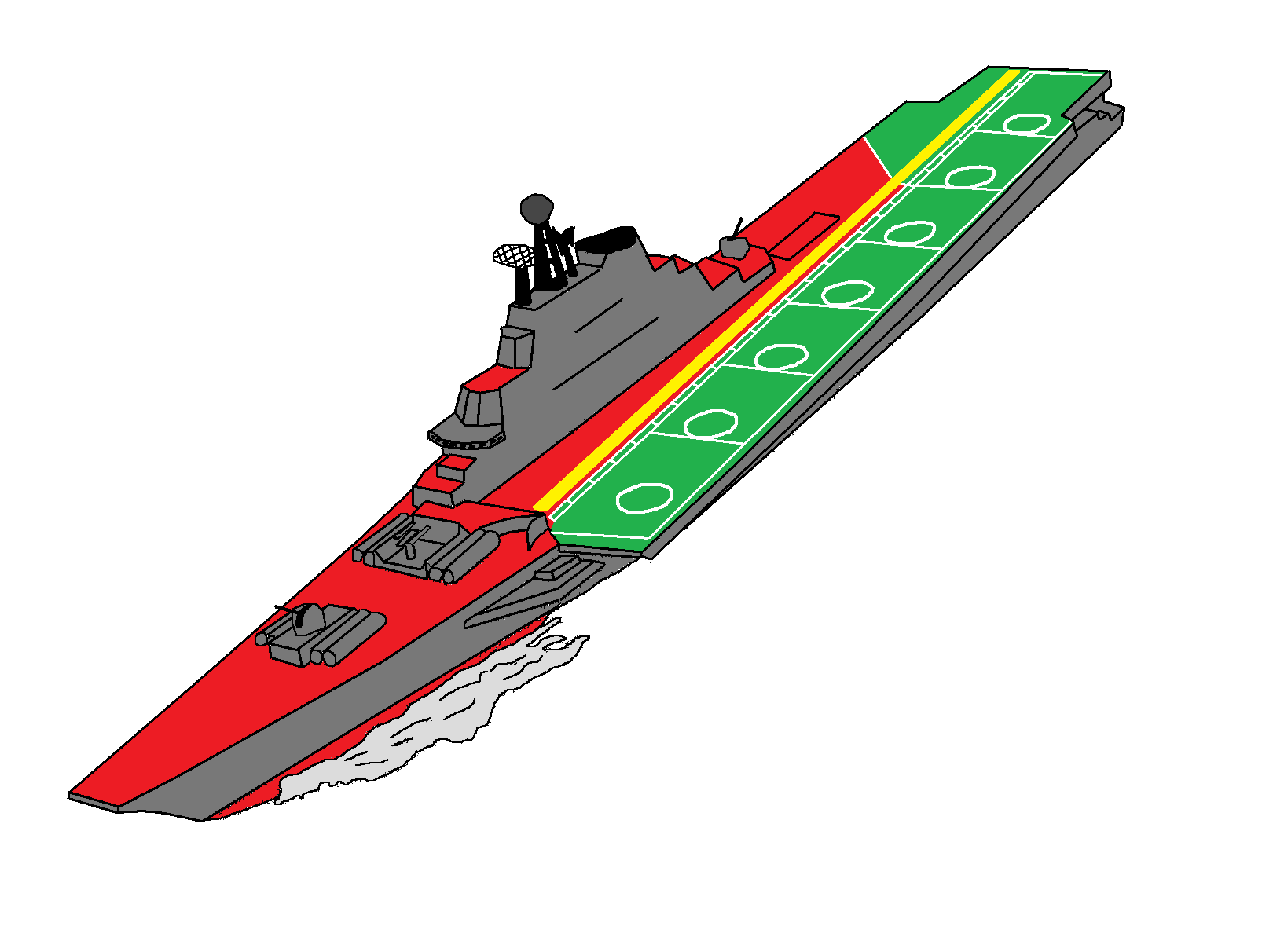 Drawing of a Project 1143 (Kiev class) aircraft carrier